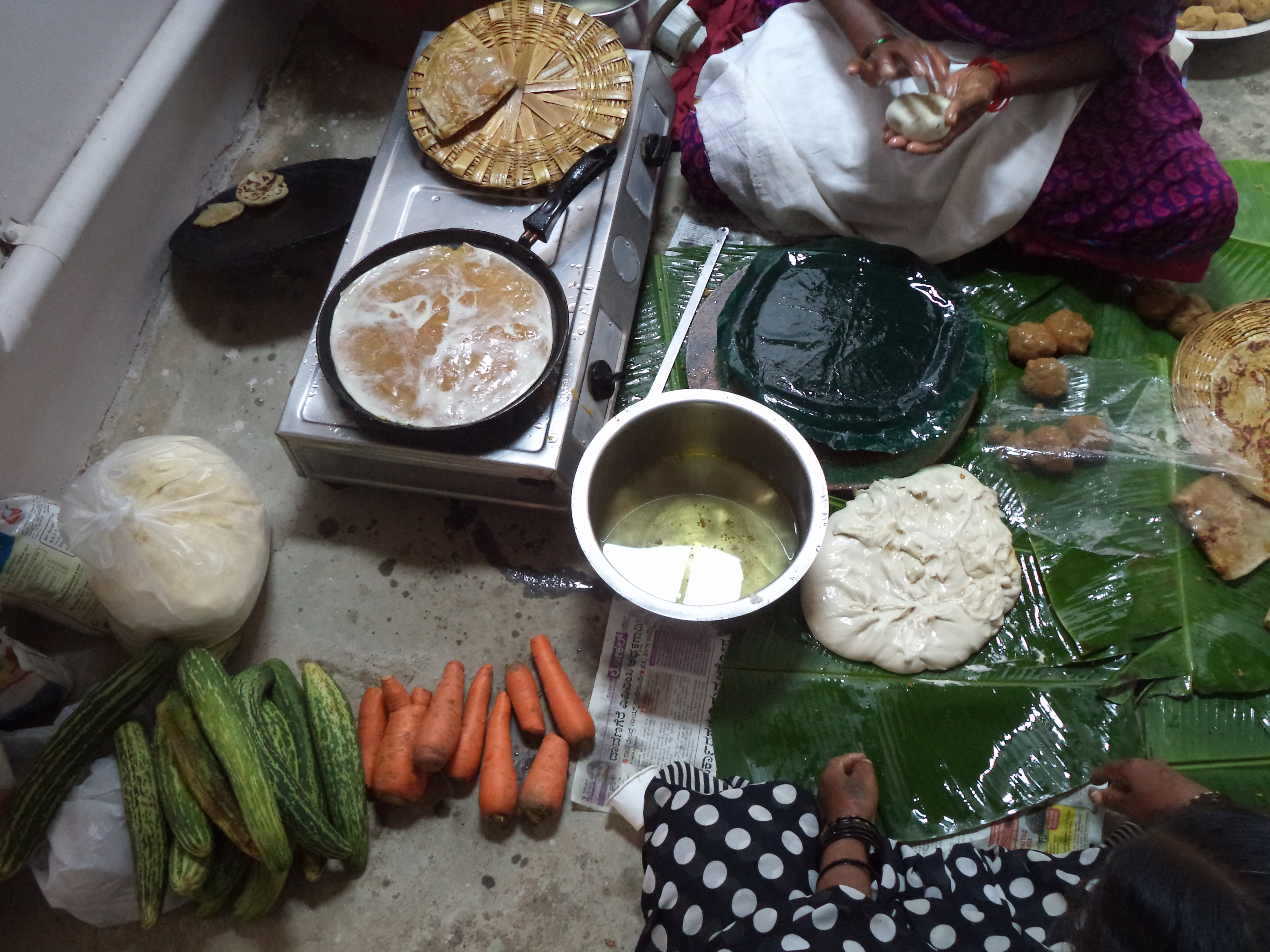 Making of Holige, the sweet dish for festivals in South India.